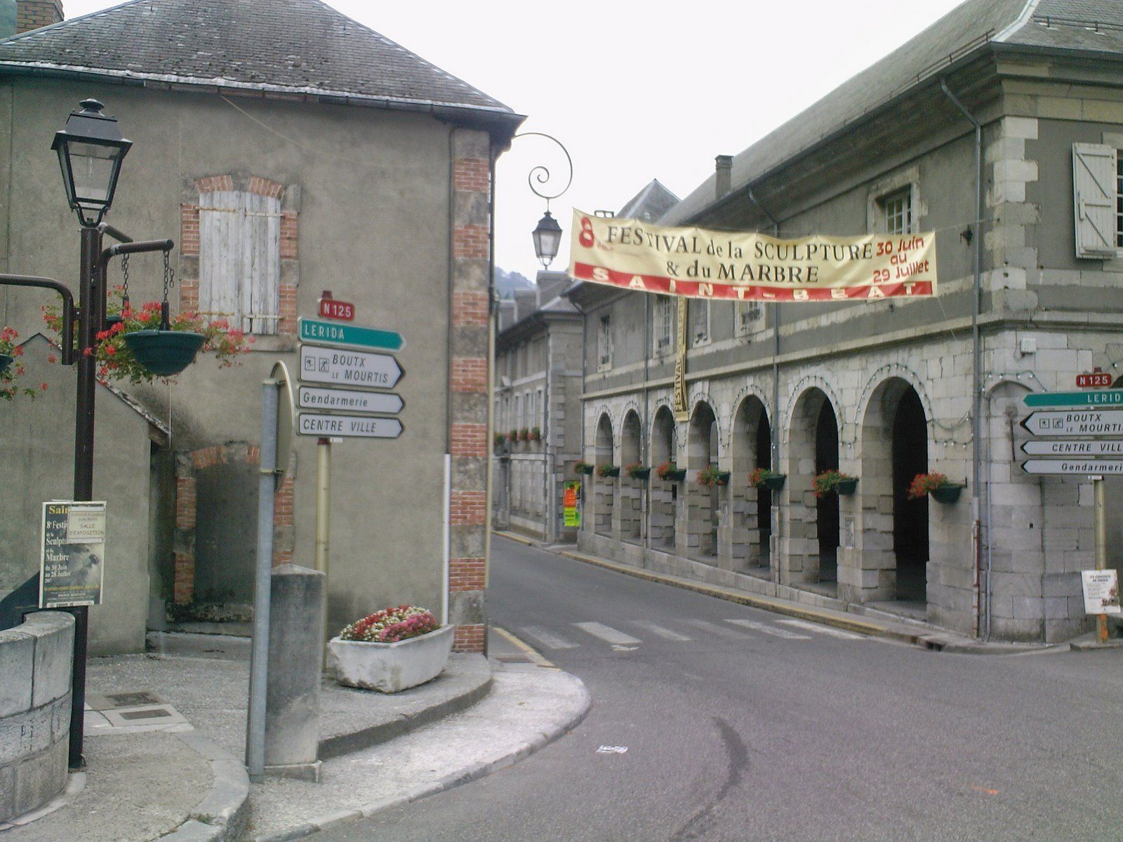 Saint Béat, view to the main street